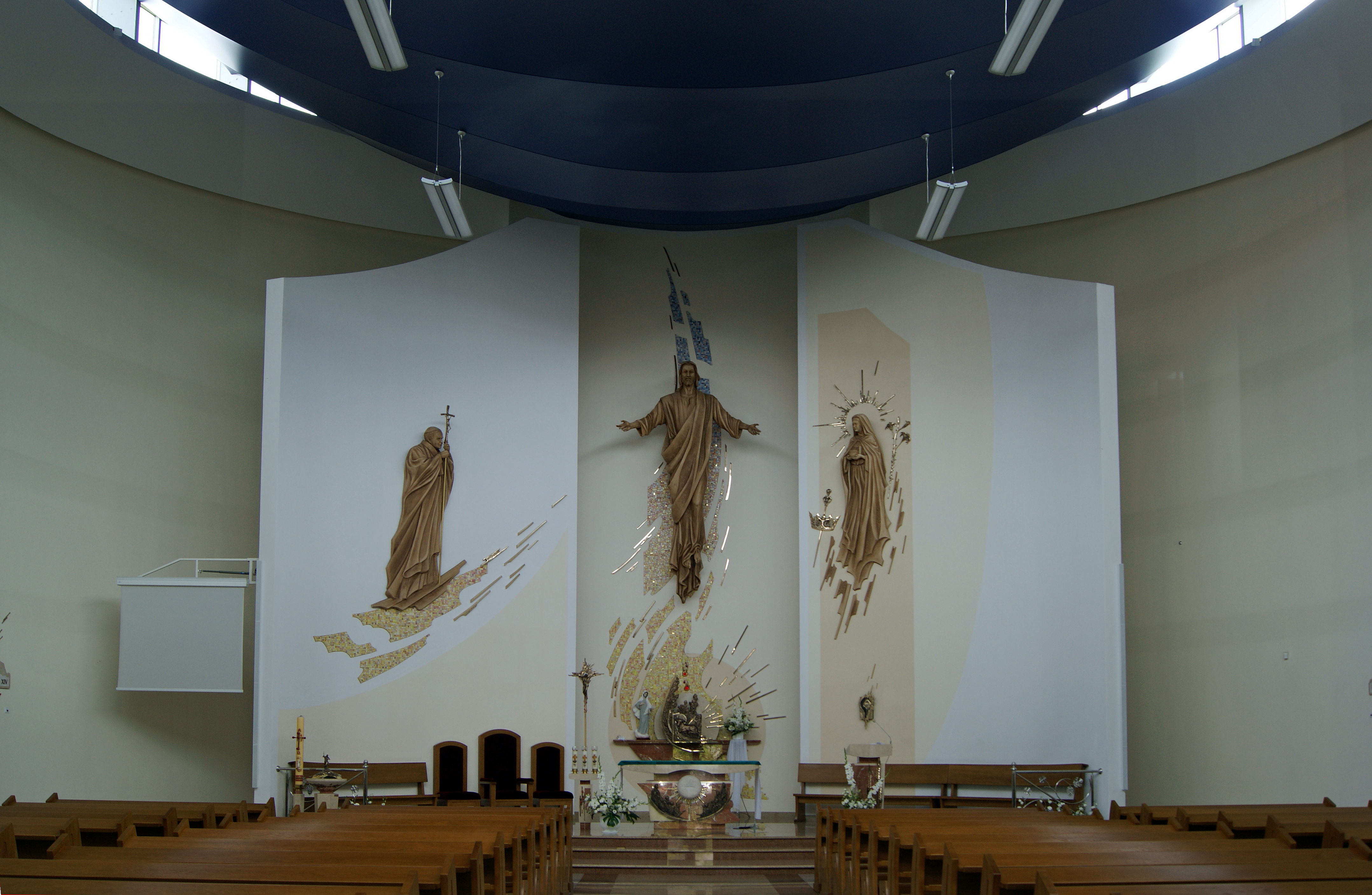 StKinga of Poland Church (interior), 37 Siemomysla street, Podgorze, Krakow, Poland